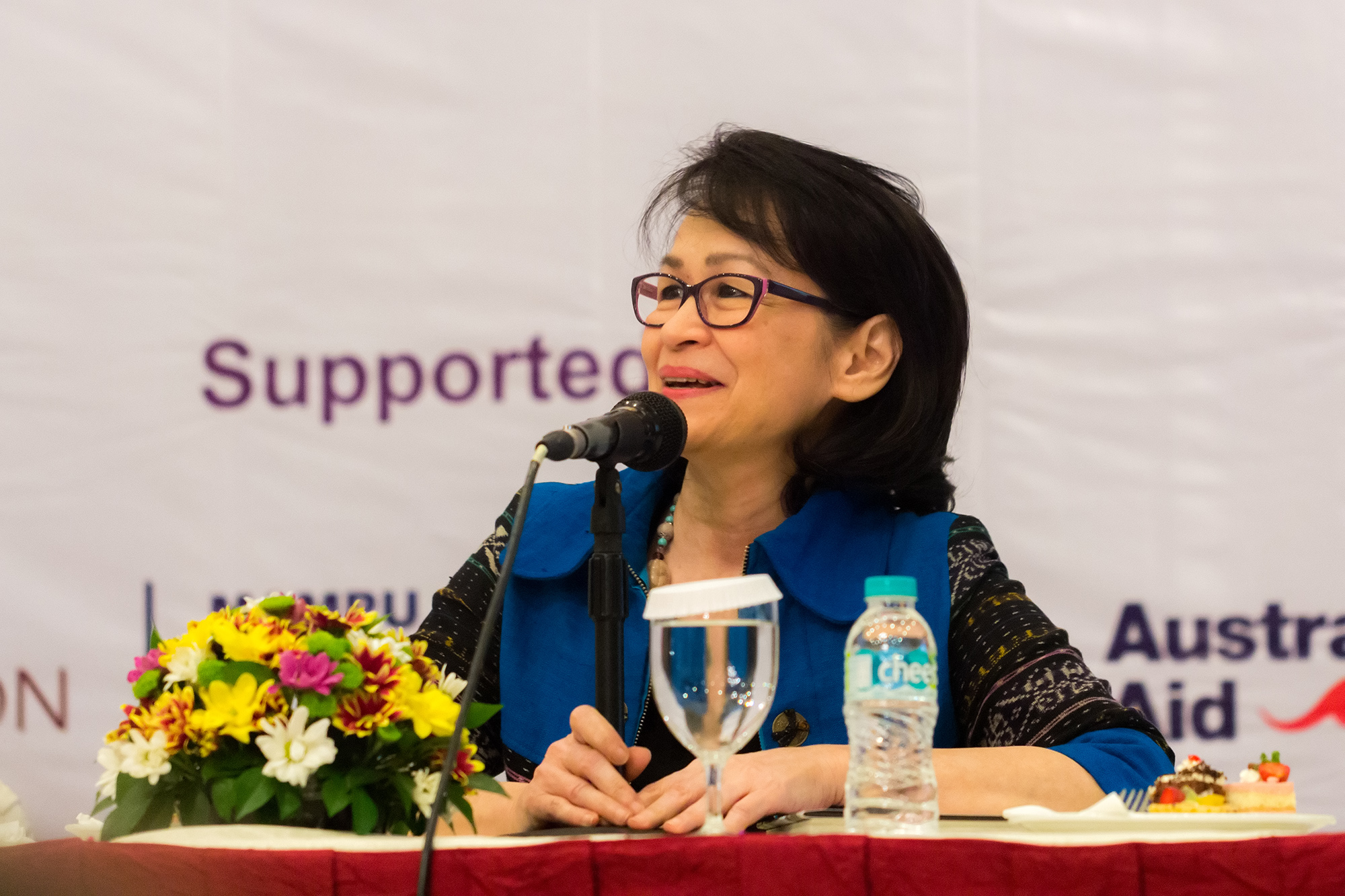 Karlina Leksono Supelli, an Indonesian astronomer and feminist, speaking at the International Conference on Feminism on 24 September 2016. This conference was held by Jurnal Perempuan at the Swiss-Belhotel in Kemang, Jakarta, in commemoration of its twentieth year.